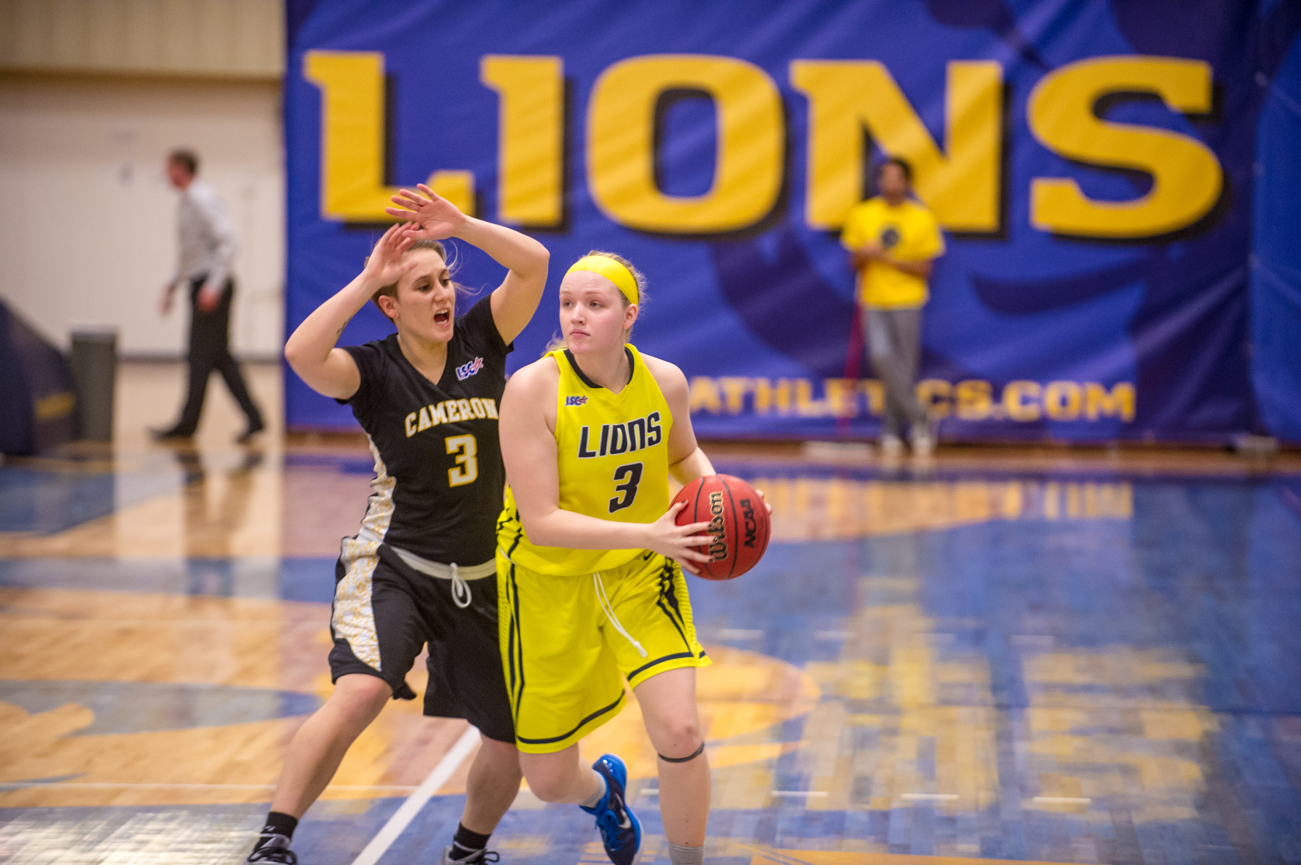 Athletics-WBSK vs Cameron-2009.jpg 2014–15 Texas A&M–Commerce Lions women's basketball team